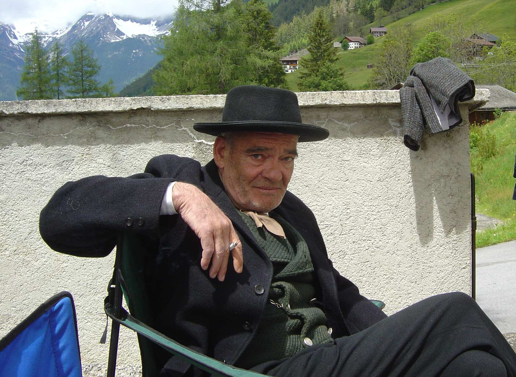 Hans-Michael Rehberg (Actor)